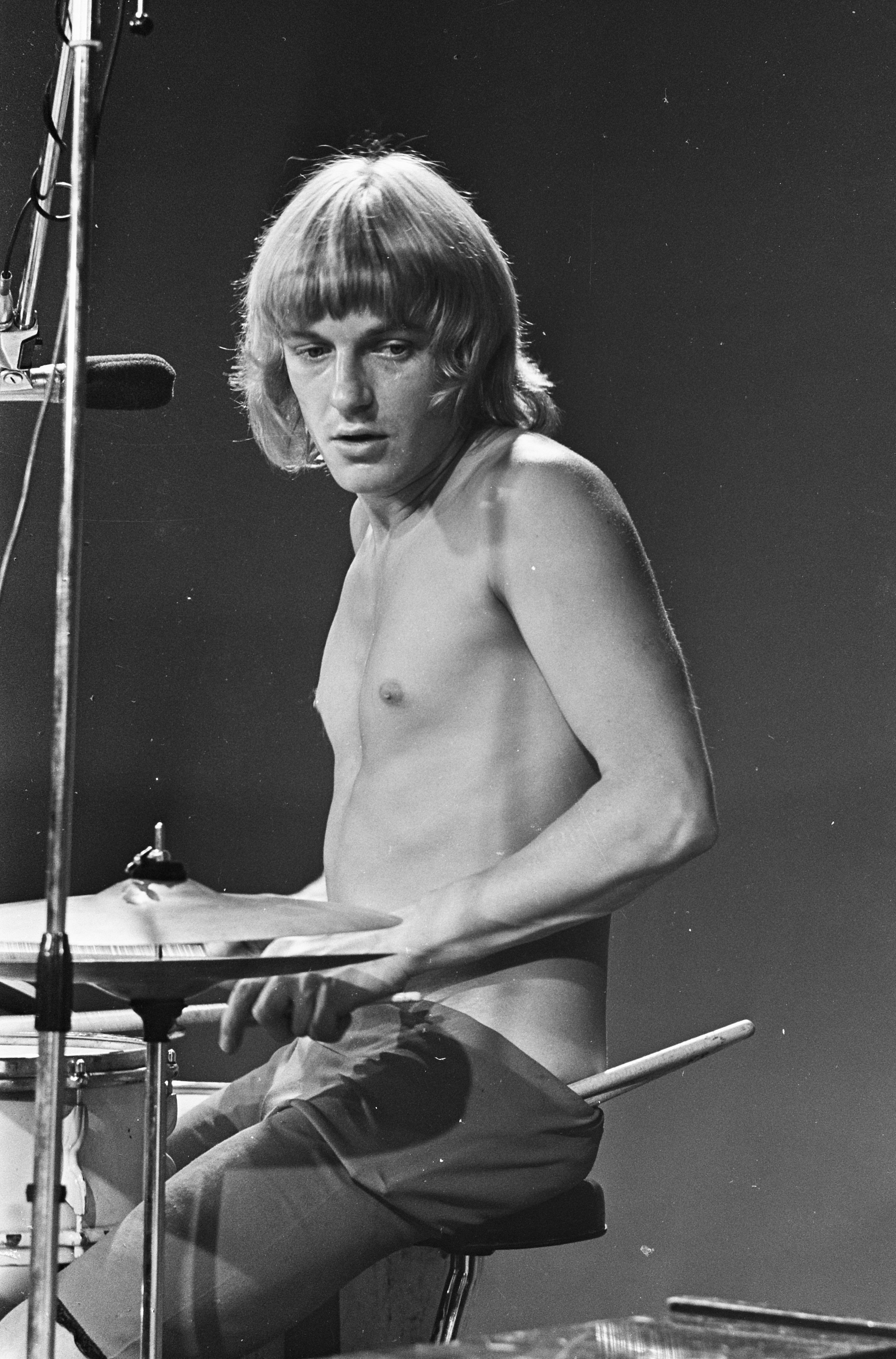 Drummer Robert Wyatt of the progressive rock band Soft Machine, performing on the Dutch television show Hoepla on VPRO. Filmed in Hilversum.